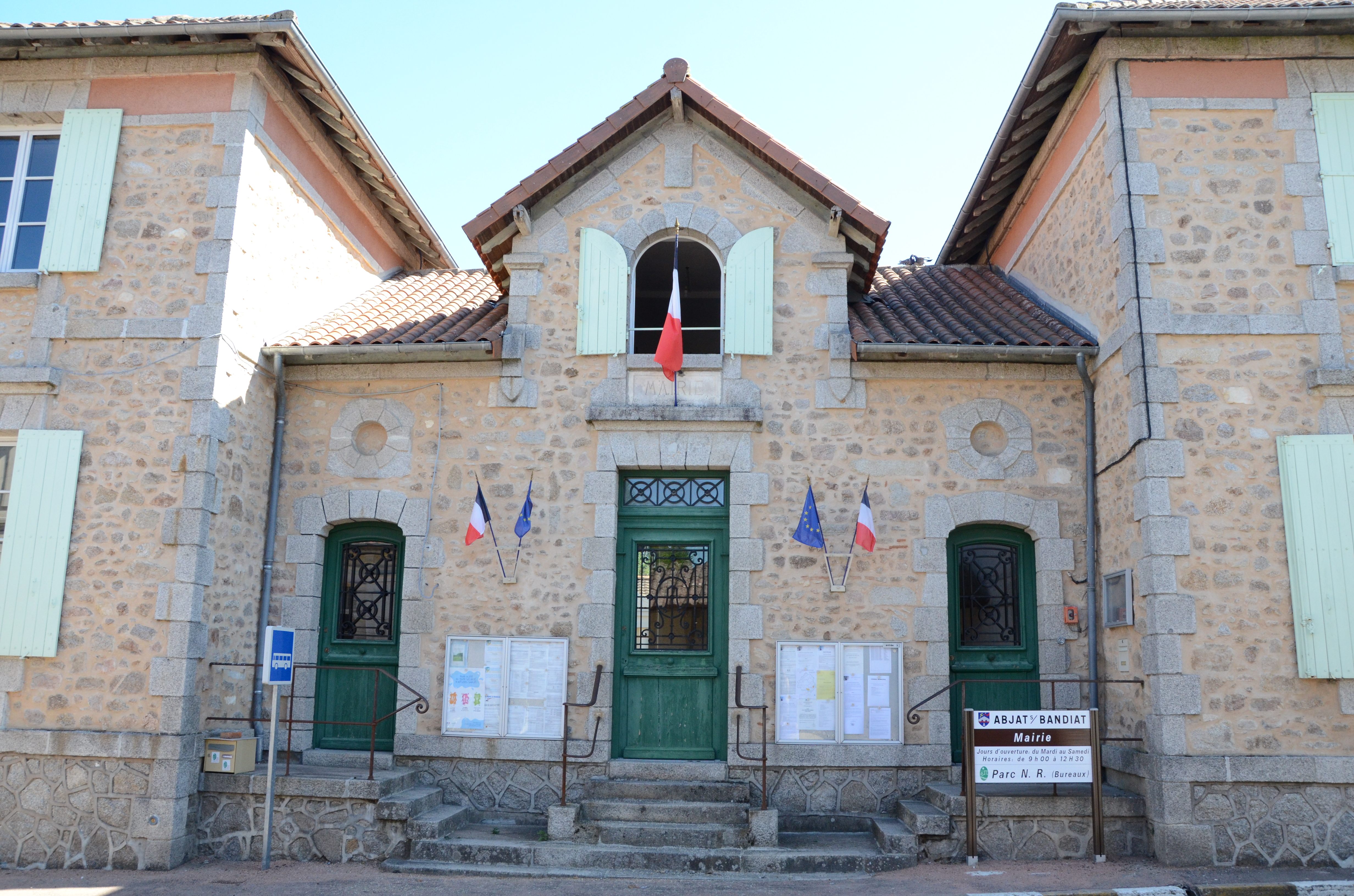 Townhall of Abjat-sur-Bandiat